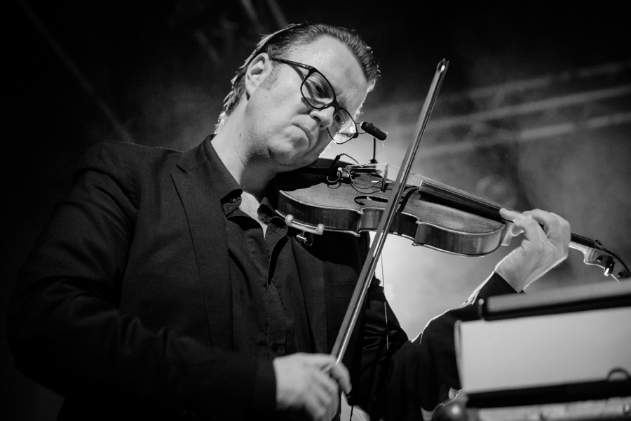 Ola Kvernberg with Ola Kvernbergs Steamdome in Energimølla. The concert was part of Kongsberg Jazzfestival and took place on 07. July 2018 in Kongsberg. Lineup:Ola Kvernberg (viola and keyboard)Erik Nylander (drums)Børge Fjordheim (drums)Martin Windstad (percussion)Nikolai Hængsle (bass guitar)Alexander Pettersen (guitar)Daniel Buner Formo (organ)